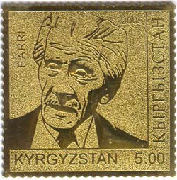 Stamp of Kyrgyzstan